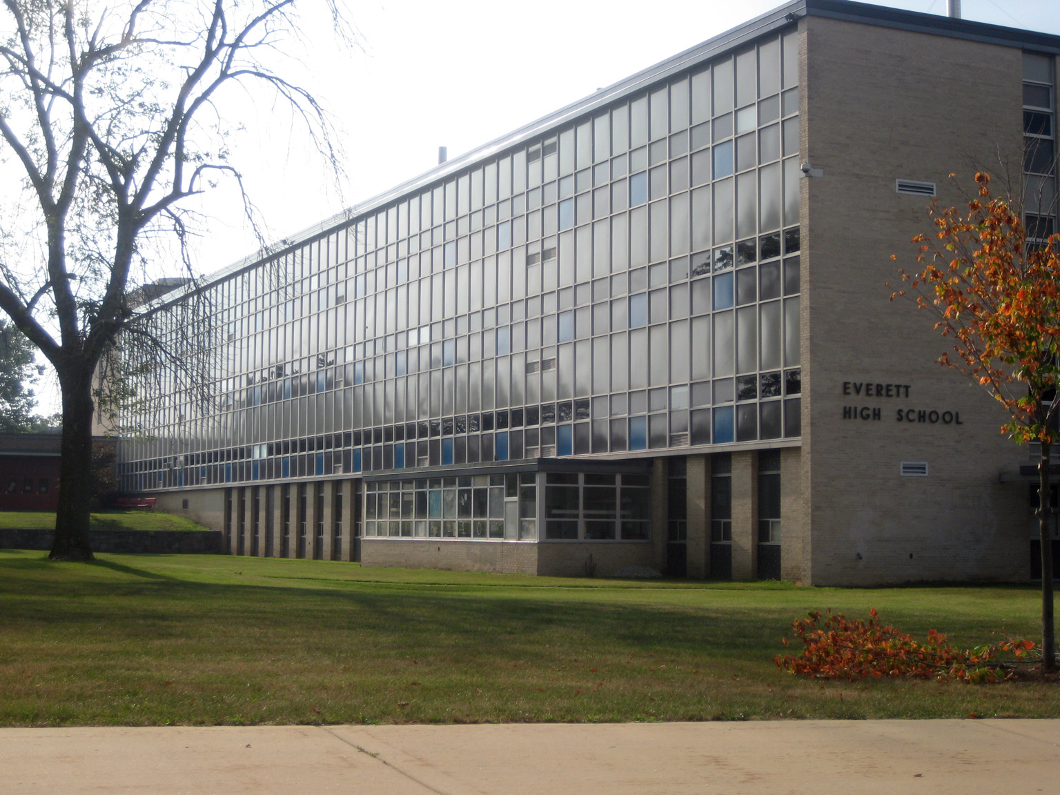 Everett High School building along Cavanaugh Road in Lansing, Michigan